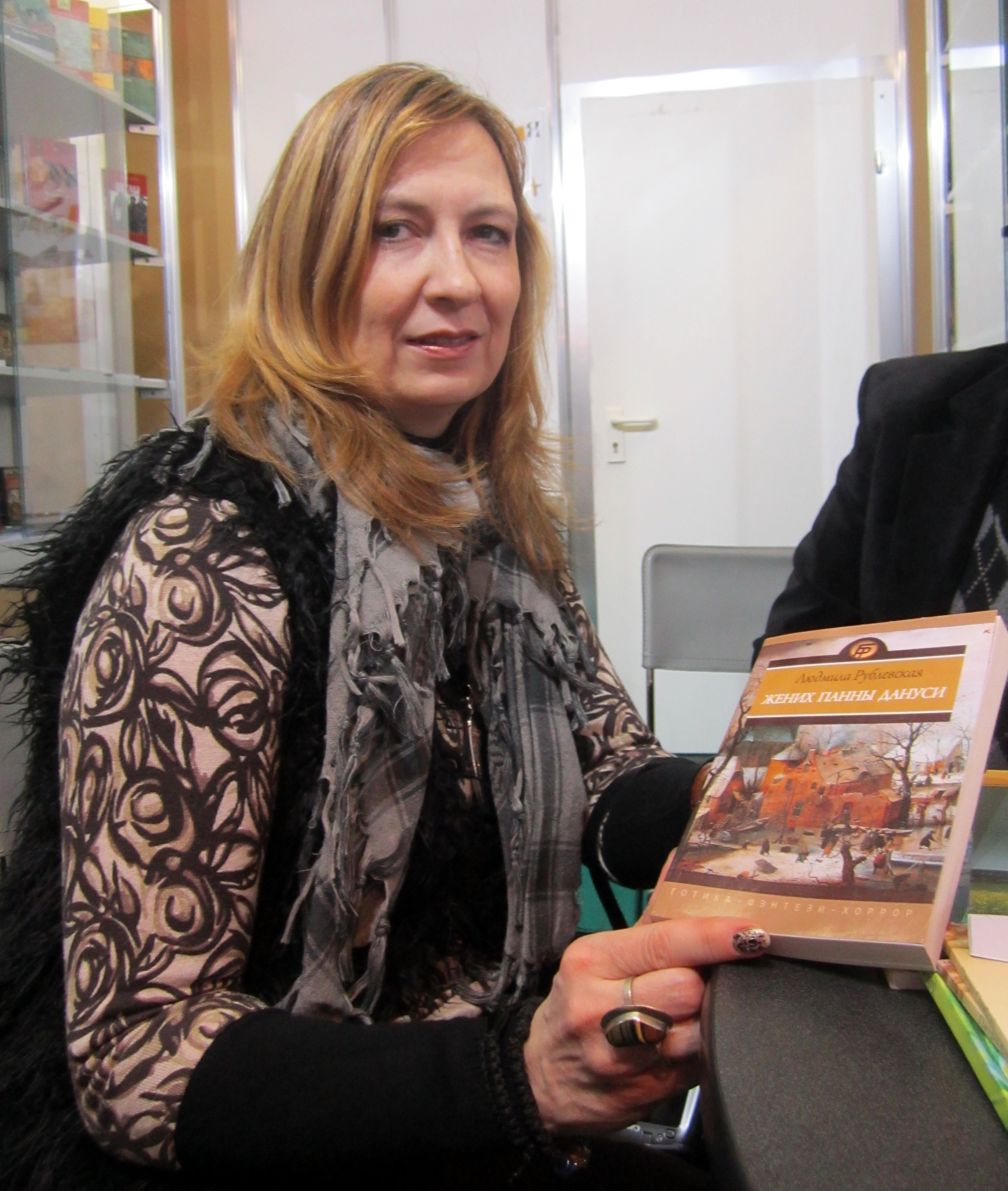 Ludmila Rublevskaja, a writer from Belarus, is showing her book "Miss Danusia fiance" wearing a finger ring